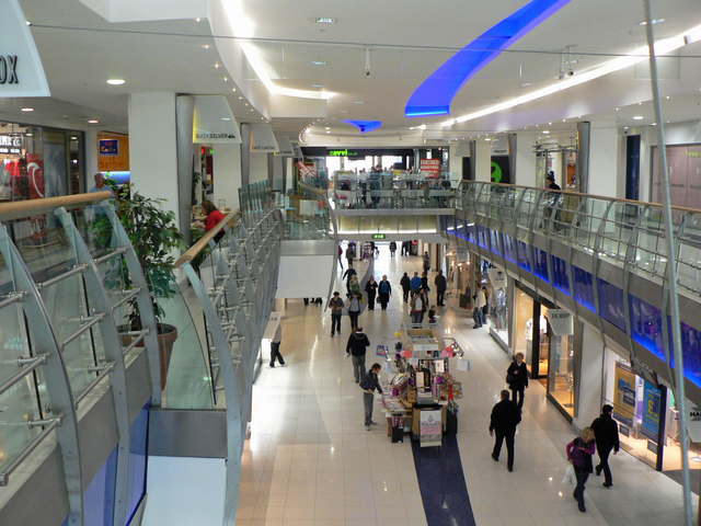 Ground floor of the Capitol Centre, Cardiff.